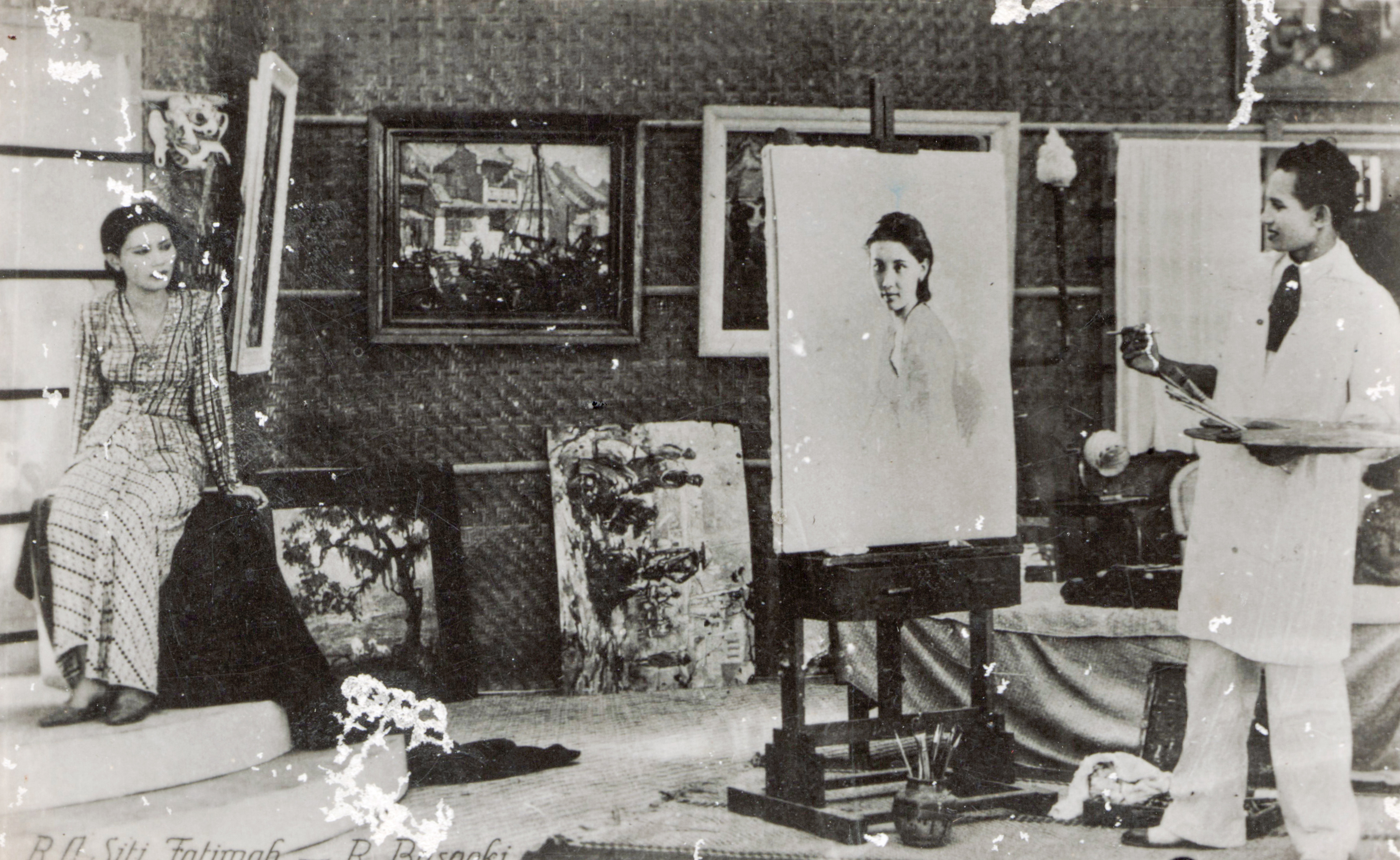 Basoeki painting Minarsih, scene from Kedok Ketawa (1940).